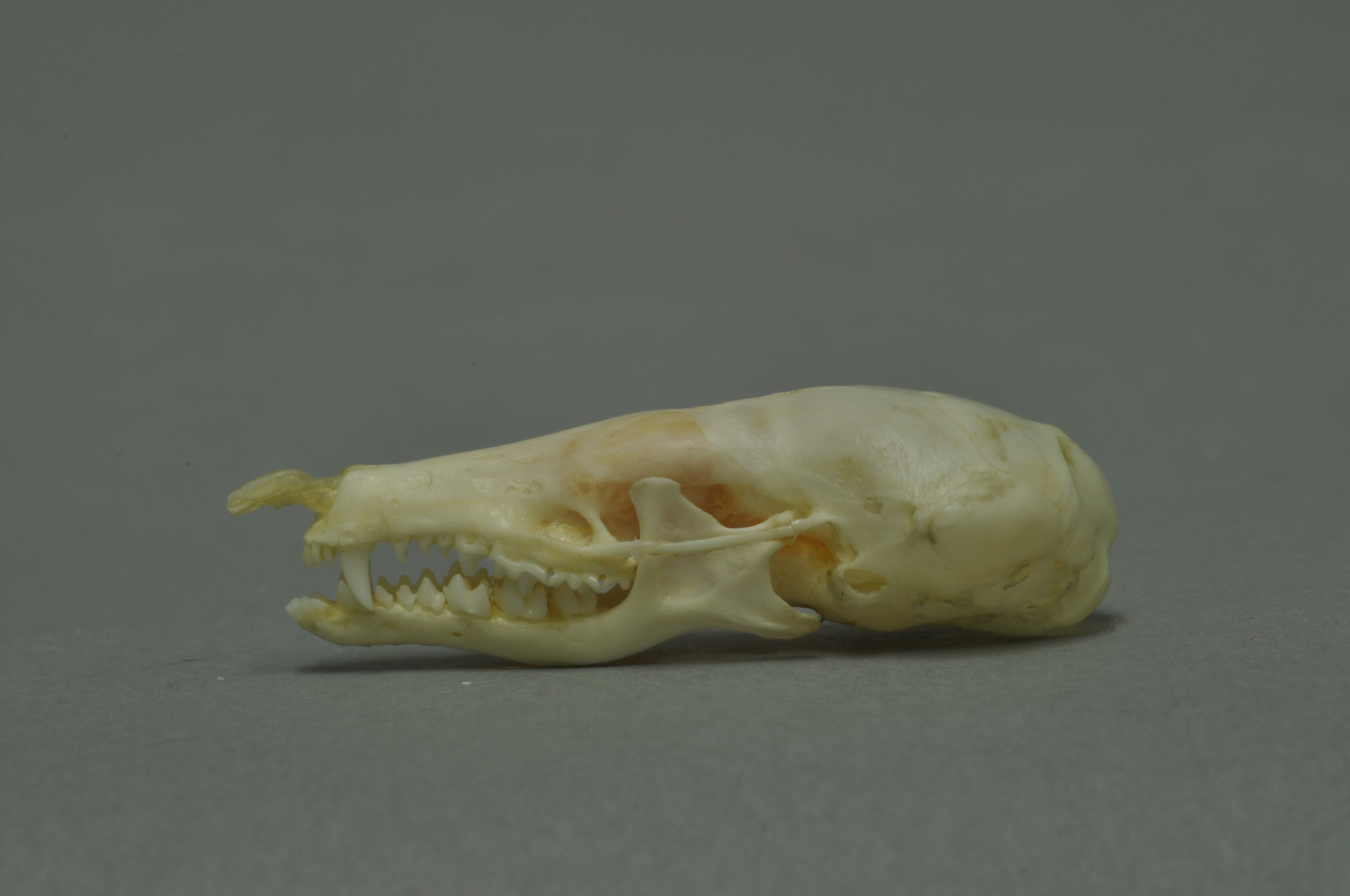 Blind MoleTalpa europaea, skull, Coll. Museum Wiesbaden